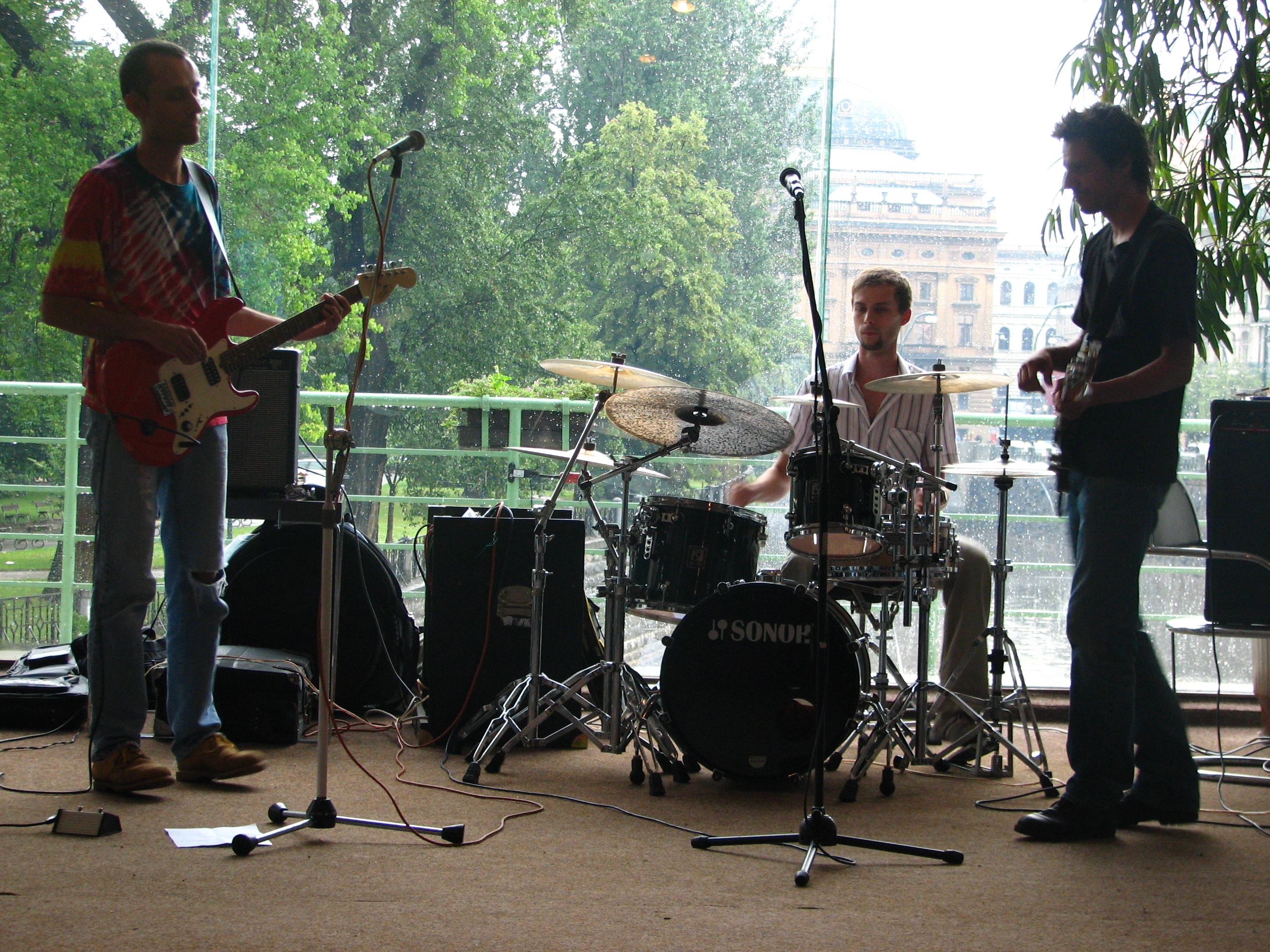 The Kouř group concert in the Prague Club Mánes, the National Theatre behind the window.